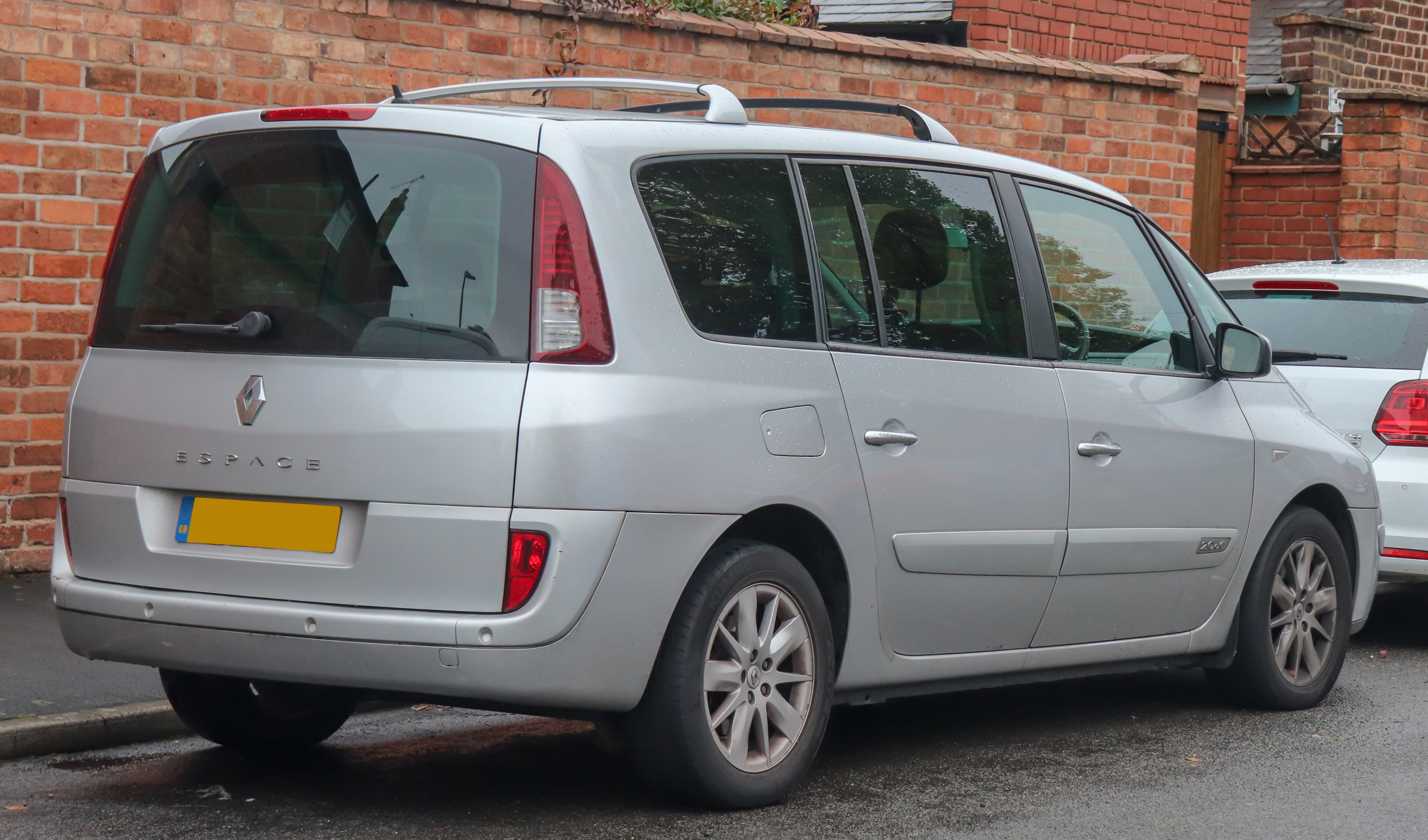 2009 Renault Grand Espace Dynamic DCi 150 Automatic 2.0 Rear Taken in Leamington Spa